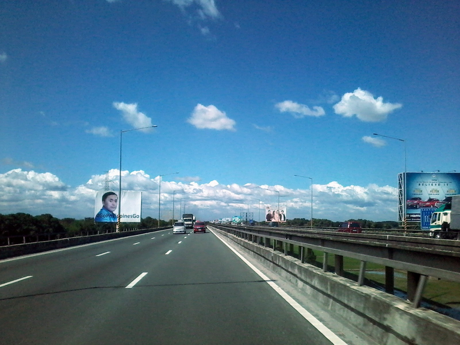 The southbound lane of Candaba Viaduct of the North Luzon Expressway (NLEx), looking northwards.